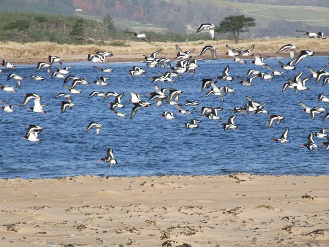 Oystercatchers at the mouth of Loch Fleet The great flux of tidal water at the mouth of Loch Fleet provides a feast for many seabirds and seals.